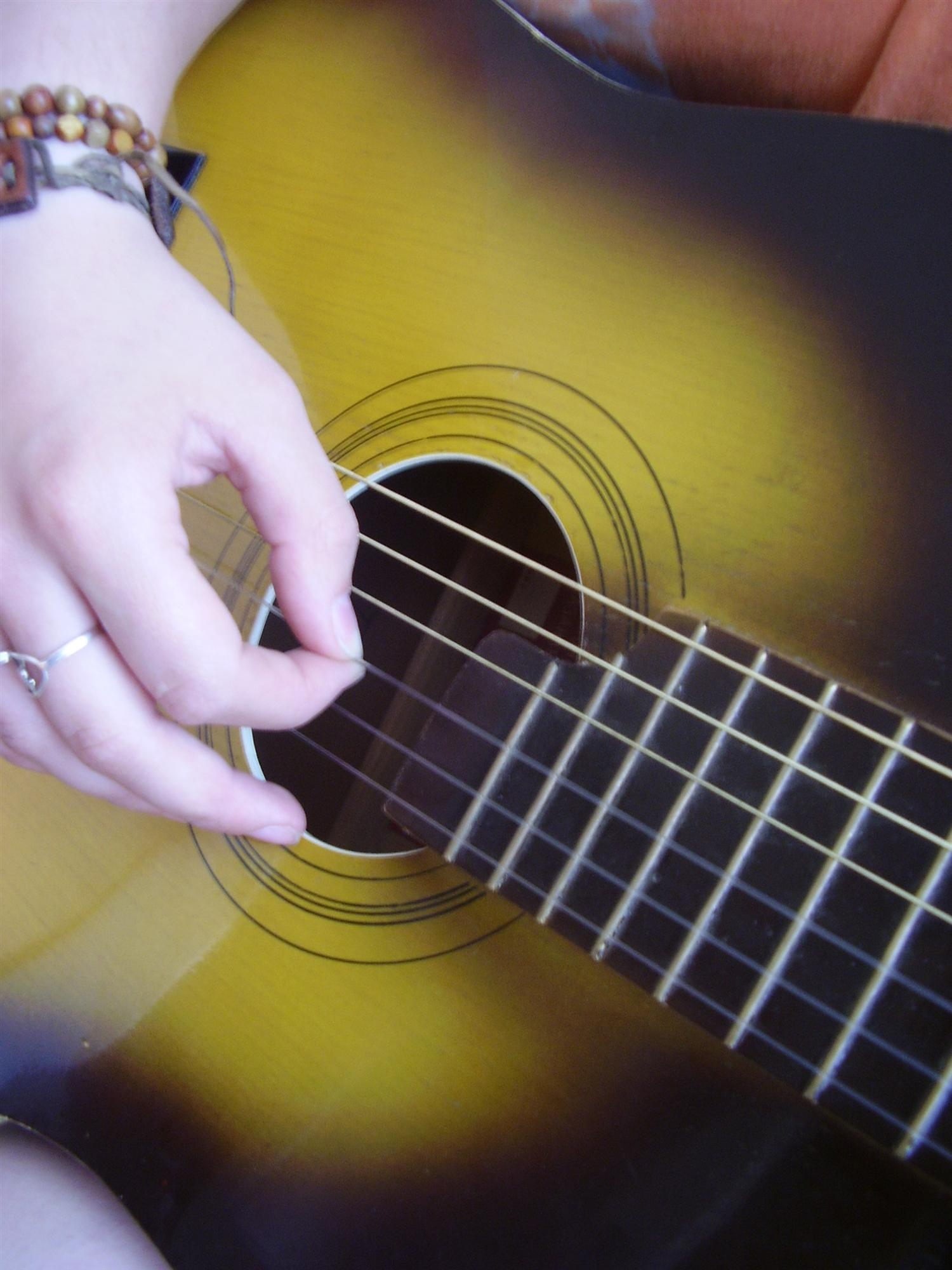 Hand playing the acoustic guitare